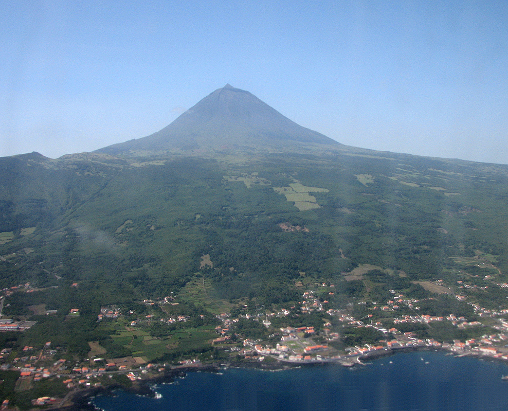 Aerial view of Pico Island, Azores